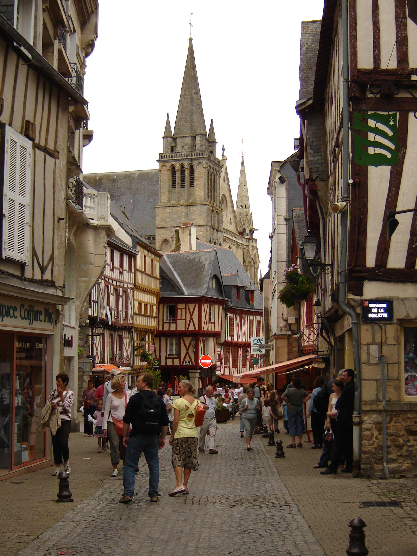 Vannes, Morbihan, Bretagne, France. City centre with traditional buildings, narrow streets and cathedral.